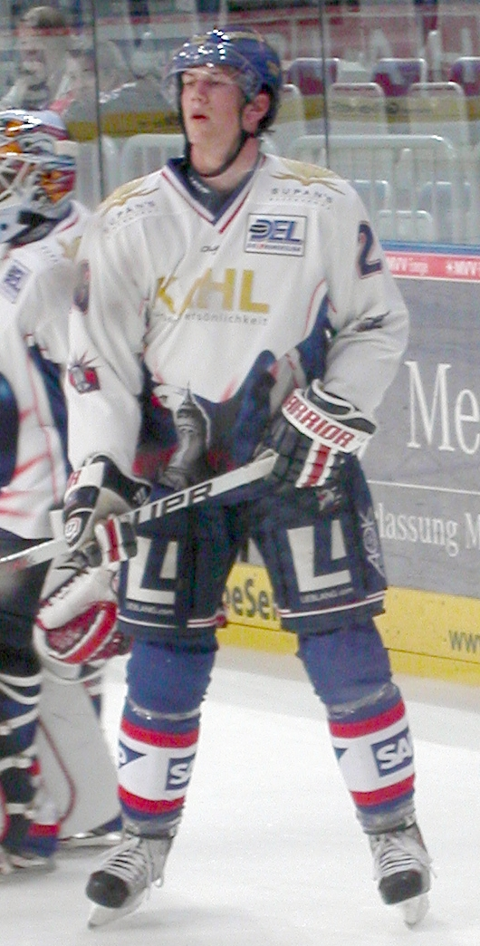 Frank Mauer, Ice hockey player from Germany, forward